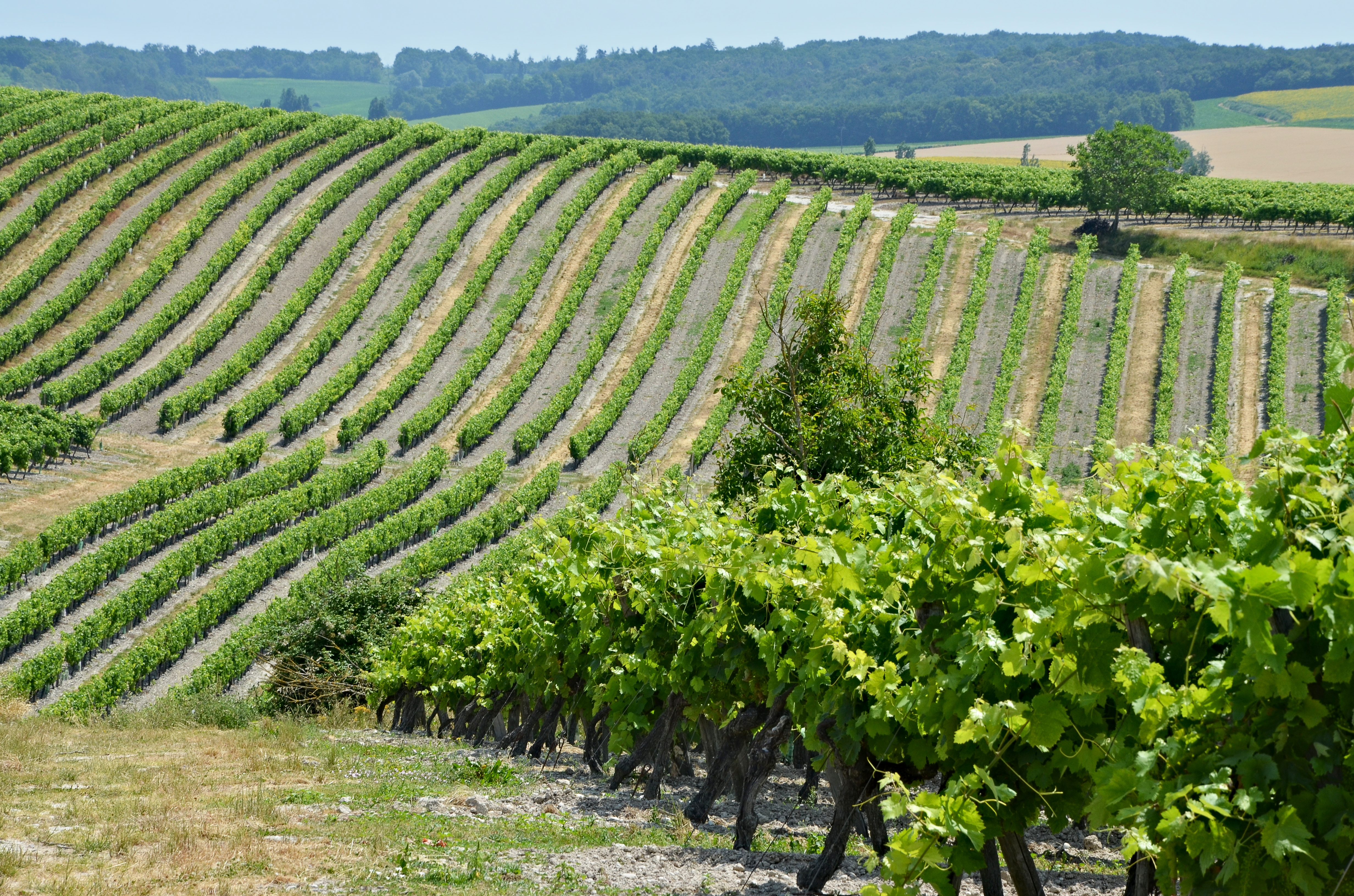 Summer landscape in the vineyards, Champagne-Vigny, Charente, France.